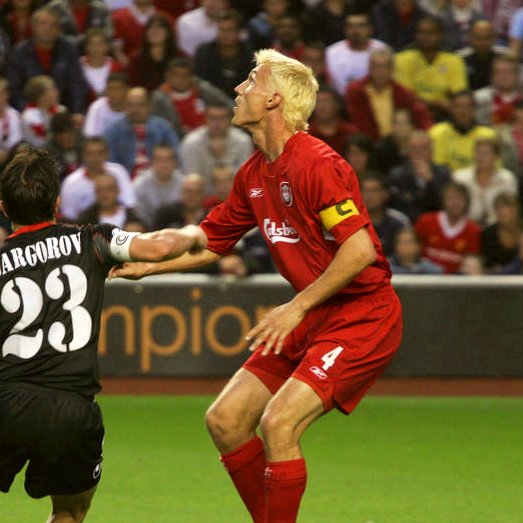 A photo of Sami Hyypia, taken by my friend Phillip Chambers, and edited by me, Alistair Hart. The full photo can be found on flickr. Note: I realise that the license on flickr does not match the licensing used here, but this is a different image. Both the photographer and myself give full consent to it being used here in this way. aLii 17:22, 12 June 2006 (UTC)